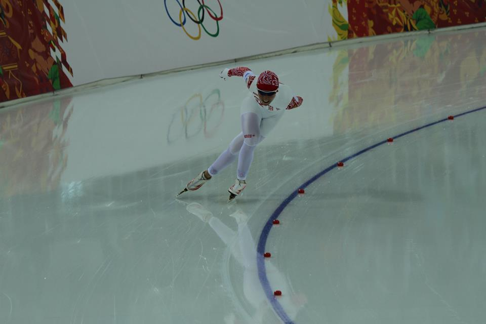 Women's 3000m, 2014 Winter Olympics, Olga Graf Bronze medalist